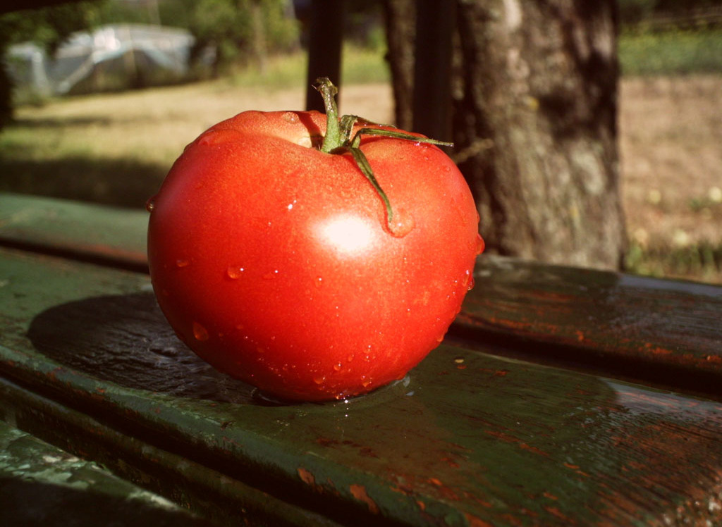 Tomato